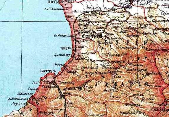 Provinces of Guria, Adjara, and northern Lazistan. The image is based upon the map of Kutais Governorate, Imperial Russia, from the public domain en:1906 Brockhaus and Efron Encyclopedic Dictionary.